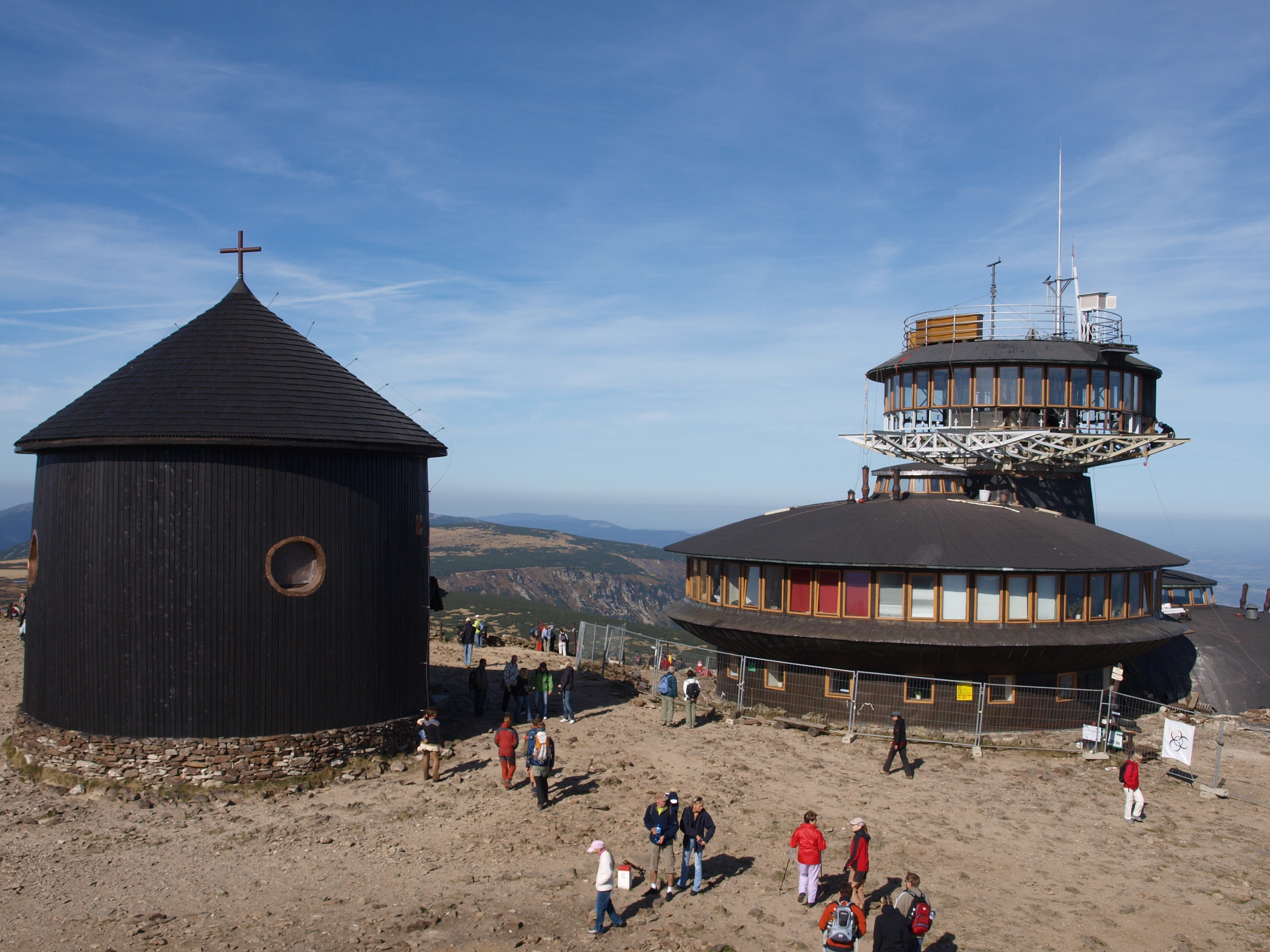 Polish observatory and chapel, Sněžka, Krkonoše